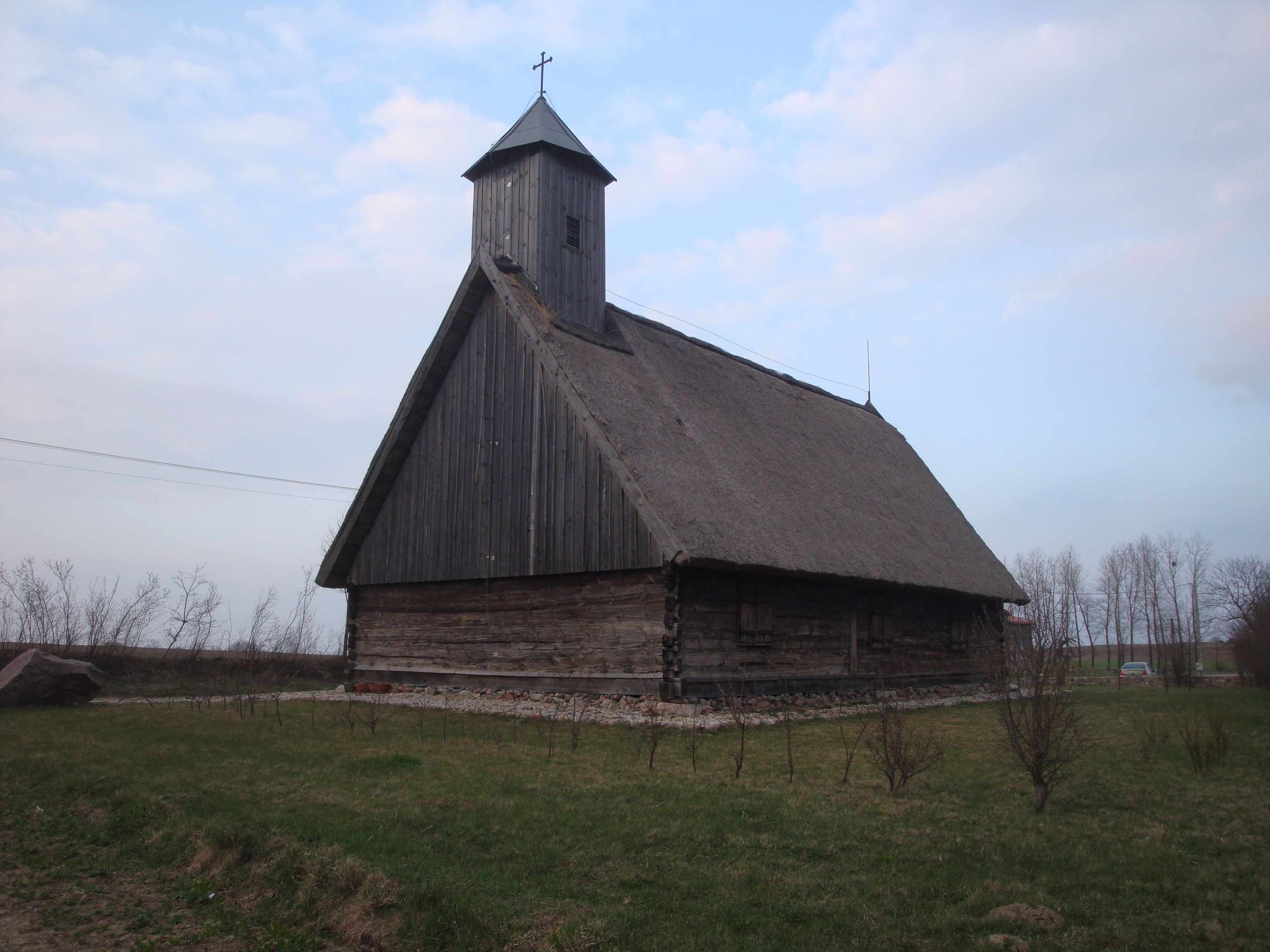 Church of St. Maksymilian Kolbe in Jarantowice, Wąbrzeźno County, Poland